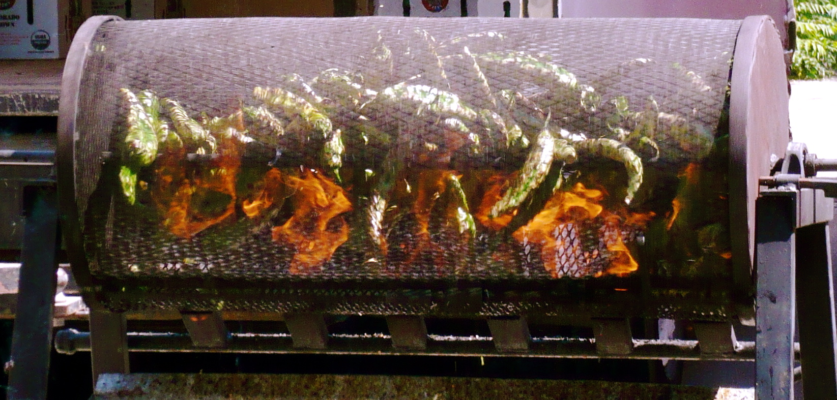 Chili peppers being fire roasted at a farmer's market.